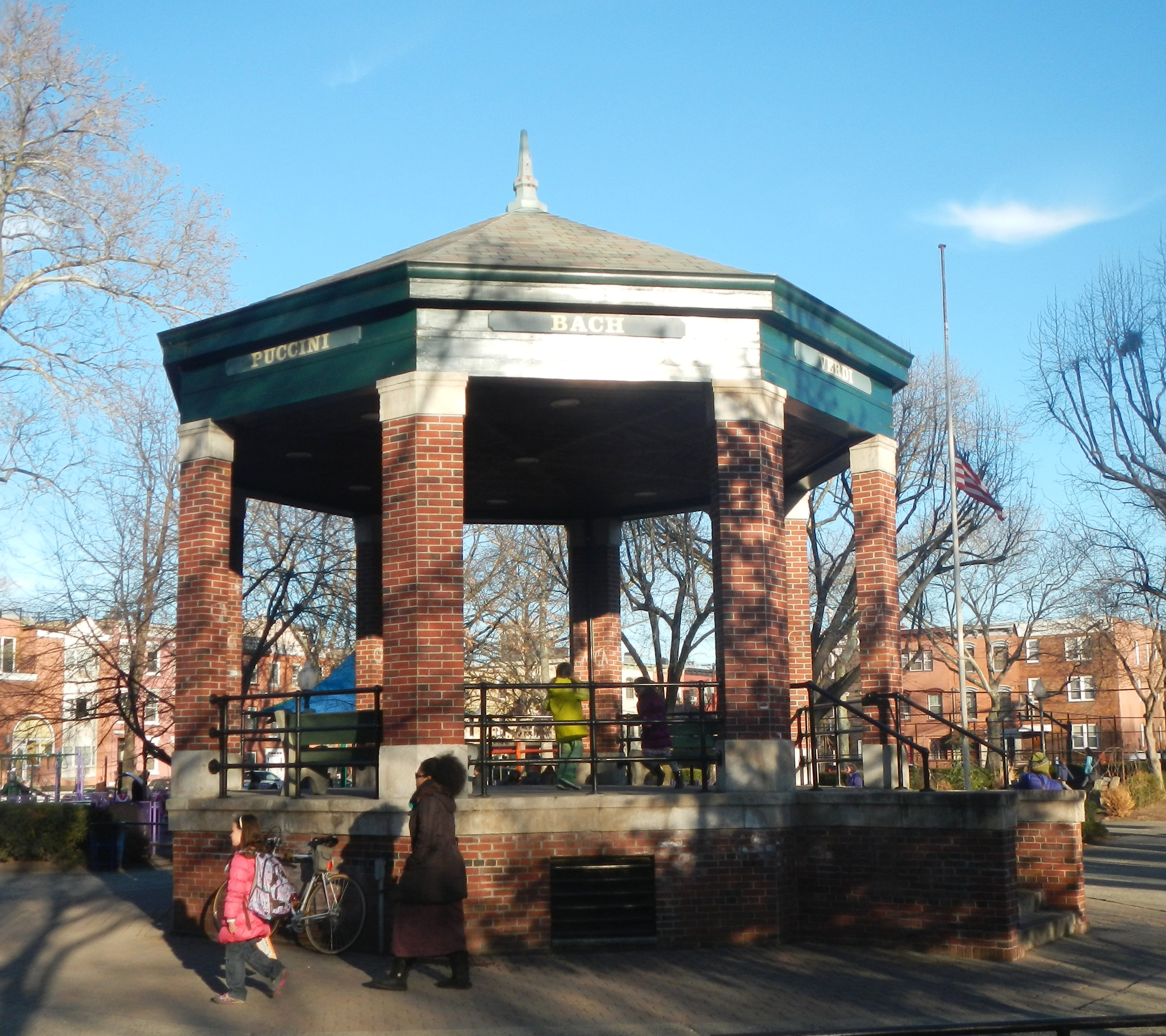 Looking east at gazebo on a sunny afternoon.